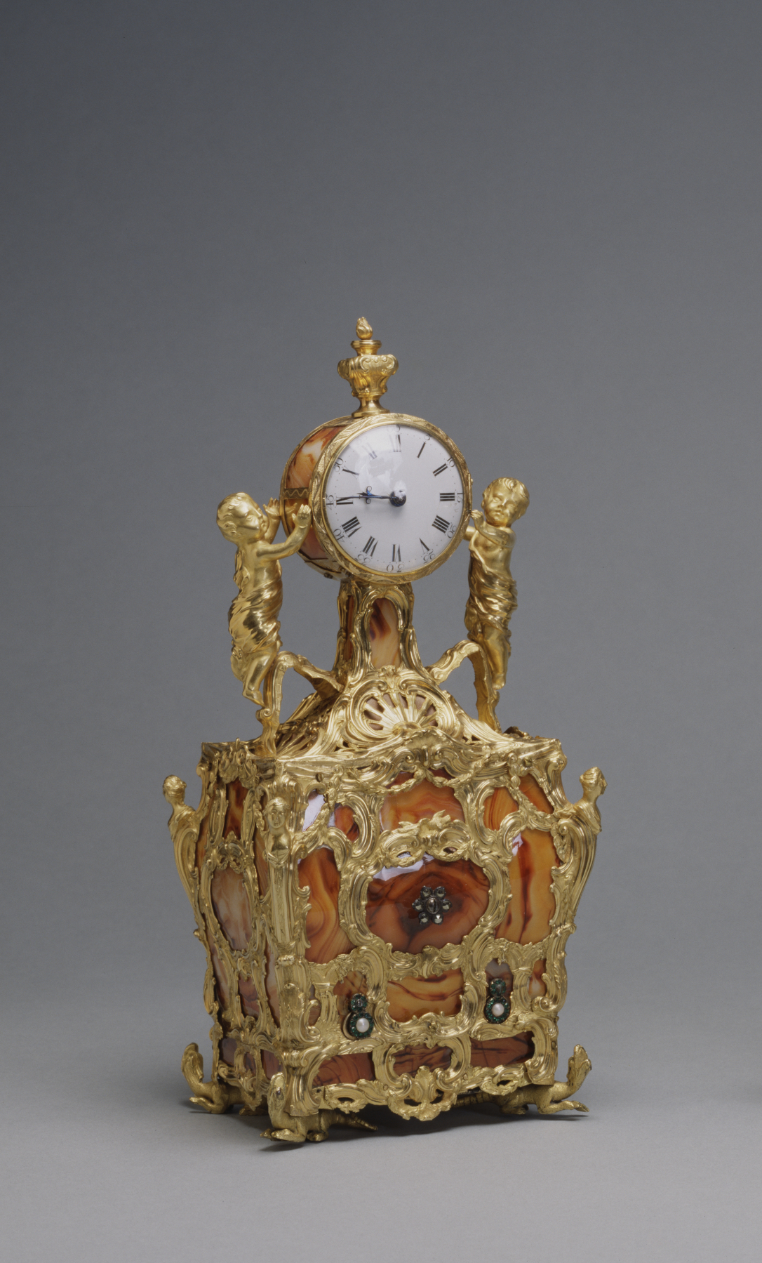 This container holds a musical mechanism as well as supporting an earlier watch. It is attributed to James Cox, a noted London jeweler and toymaker, who produced similar works, many of which were destined for the Far East market. This particular example formerly belonged to the dowager empress of Russia, Marie Feodorovna (1847-1928). Fabergé produced a copy of this clock in silver and nephrite. The copy is in the collection of the Hillwood Museum and Gardens, Washington D.C.